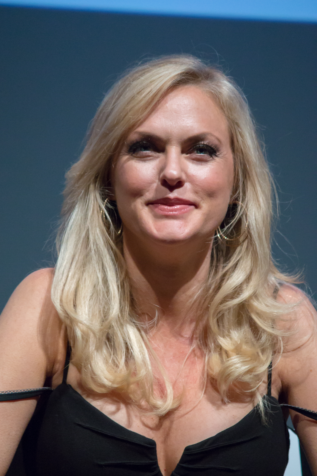 Elaine Hendrix at the 2015 ATX TV Festival presentation on the TV show Sex & Drugs & Rock & Roll